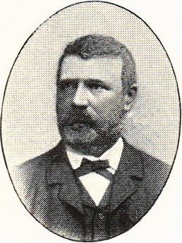 Lorents Cronsioe (1838-1914), Swedish civil servant